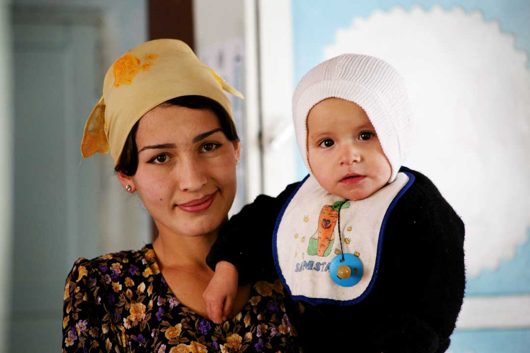 A Tajikistani woman holding her child in 2007.